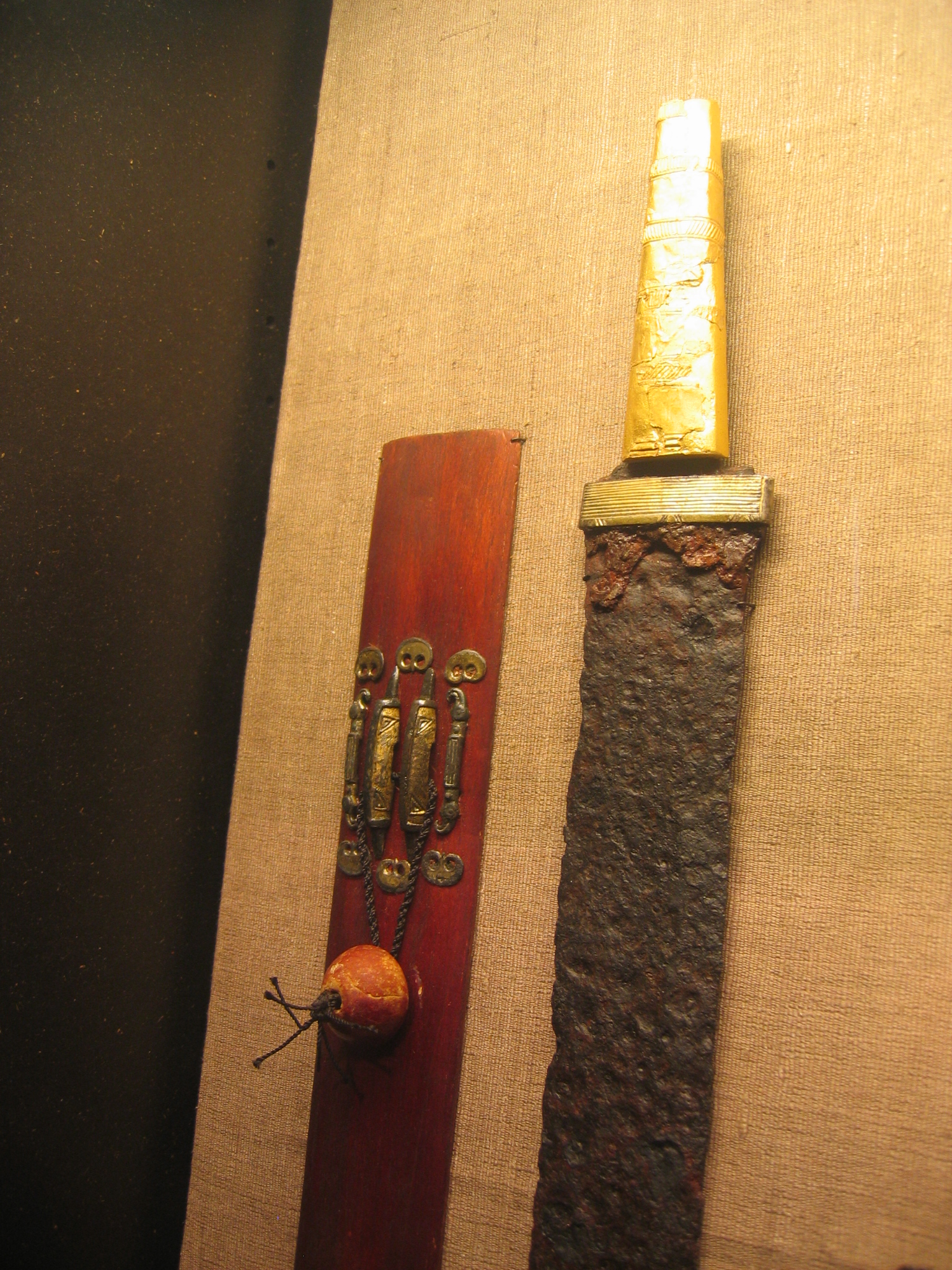 Alamannic gold grip spatha, 5th century